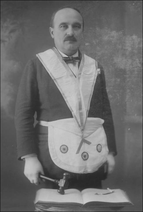 János Espersit, master of Gábor Klauzál reform lodge in masonic costume.